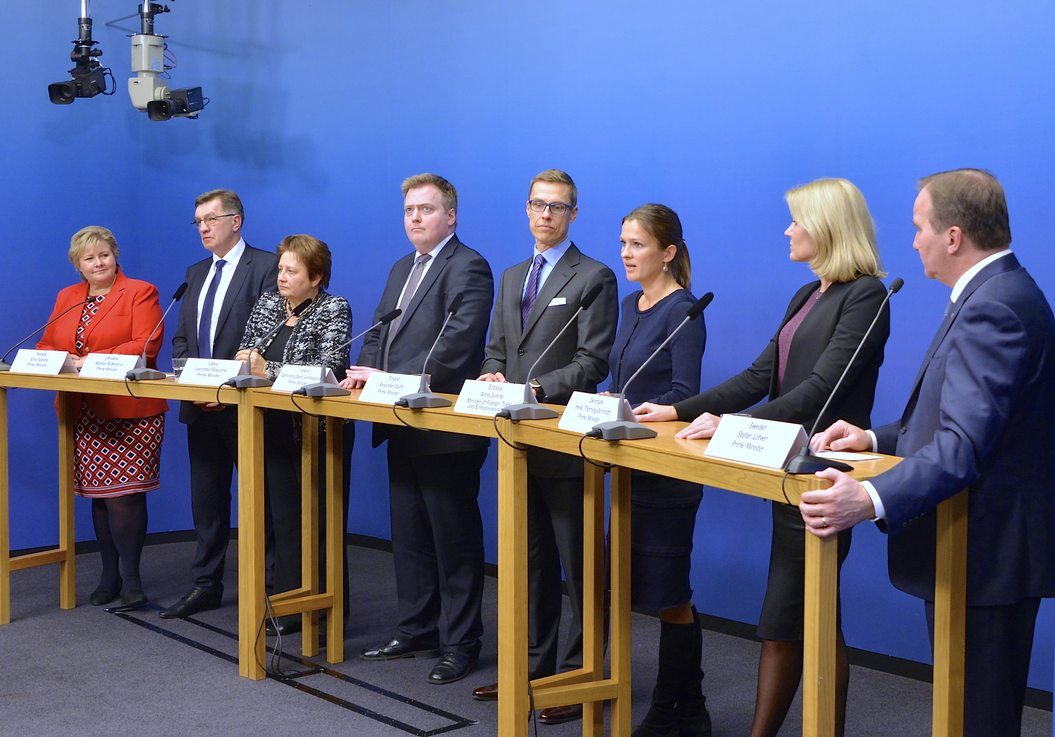 Press conference with the Nordic and Baltic prime ministers before the Nordic Council Session in Stockholm 2014. From left: Erna Solberg, Norway Algirdas Butkevičius, Lithuania Laimdota Straujuma, Latvia Sigmundur Davíð Gunnlaugsson, Iceland Alexander Stubb, Finland Anne Sulling, Estonia (Minister for Foreign Trade and Entrepreneurship) Helle Thorning-Schmidt, Denmark Stefan Löfven, Sweden